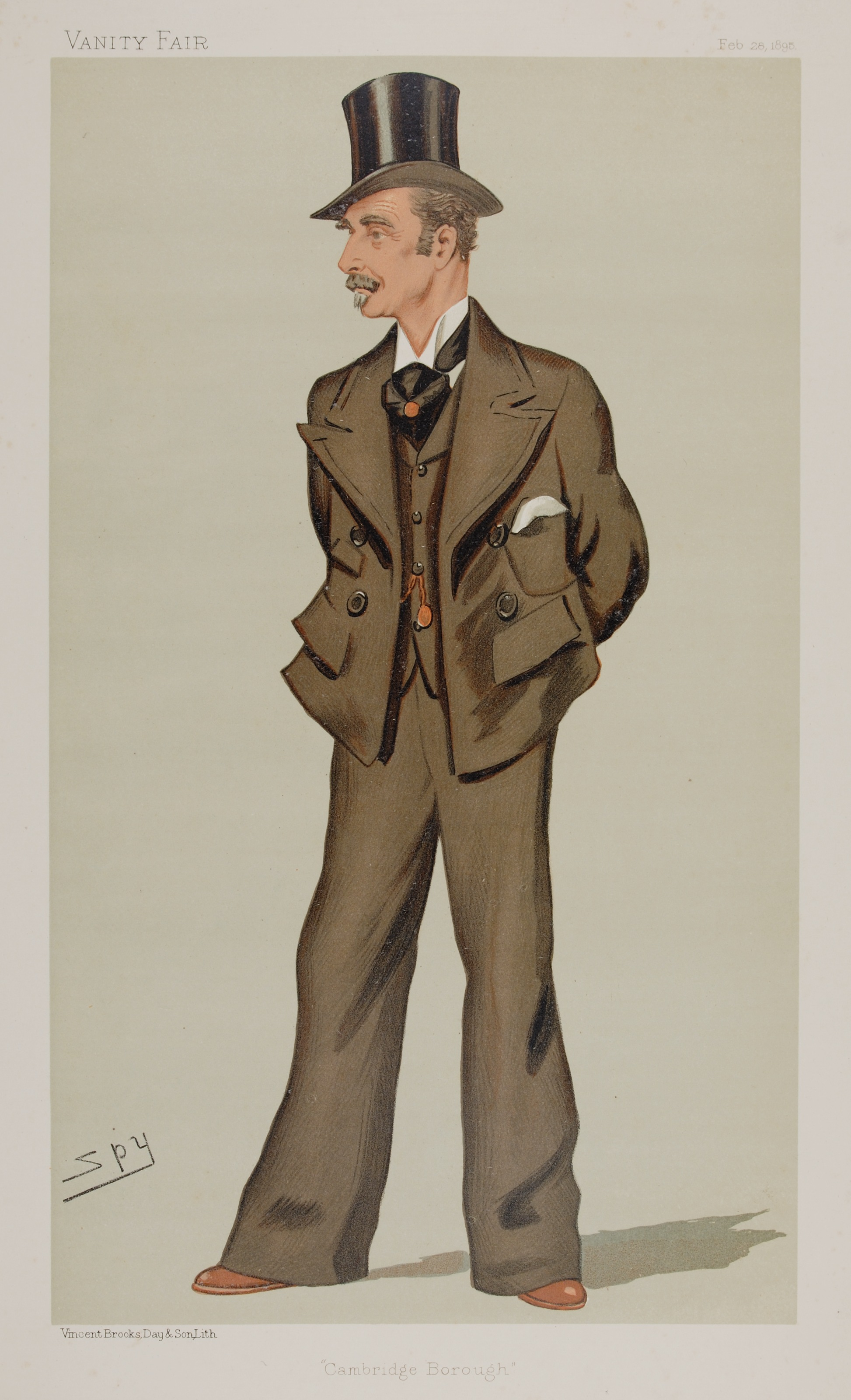 Statesmen No. 648: Caricature of Robert Uniacke Penrose-Fitzgerald M.P.. Caption read "Cambridge Borough".